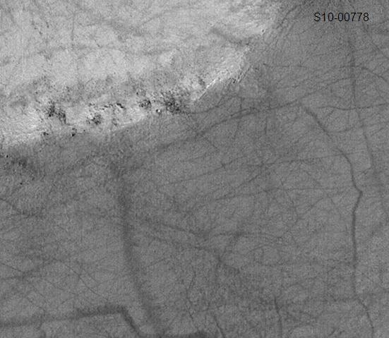 Dust devil tracks in Eridania. This image was taken with the Mars Orbital Camera MOC) on the Mars Global Surveyor MGS). It's id number is S10-00778, and its location is 196.63 degrees west longitude and 55.11 degrees south latitude. The photo credit is Malin Space Science Systems/NASA.